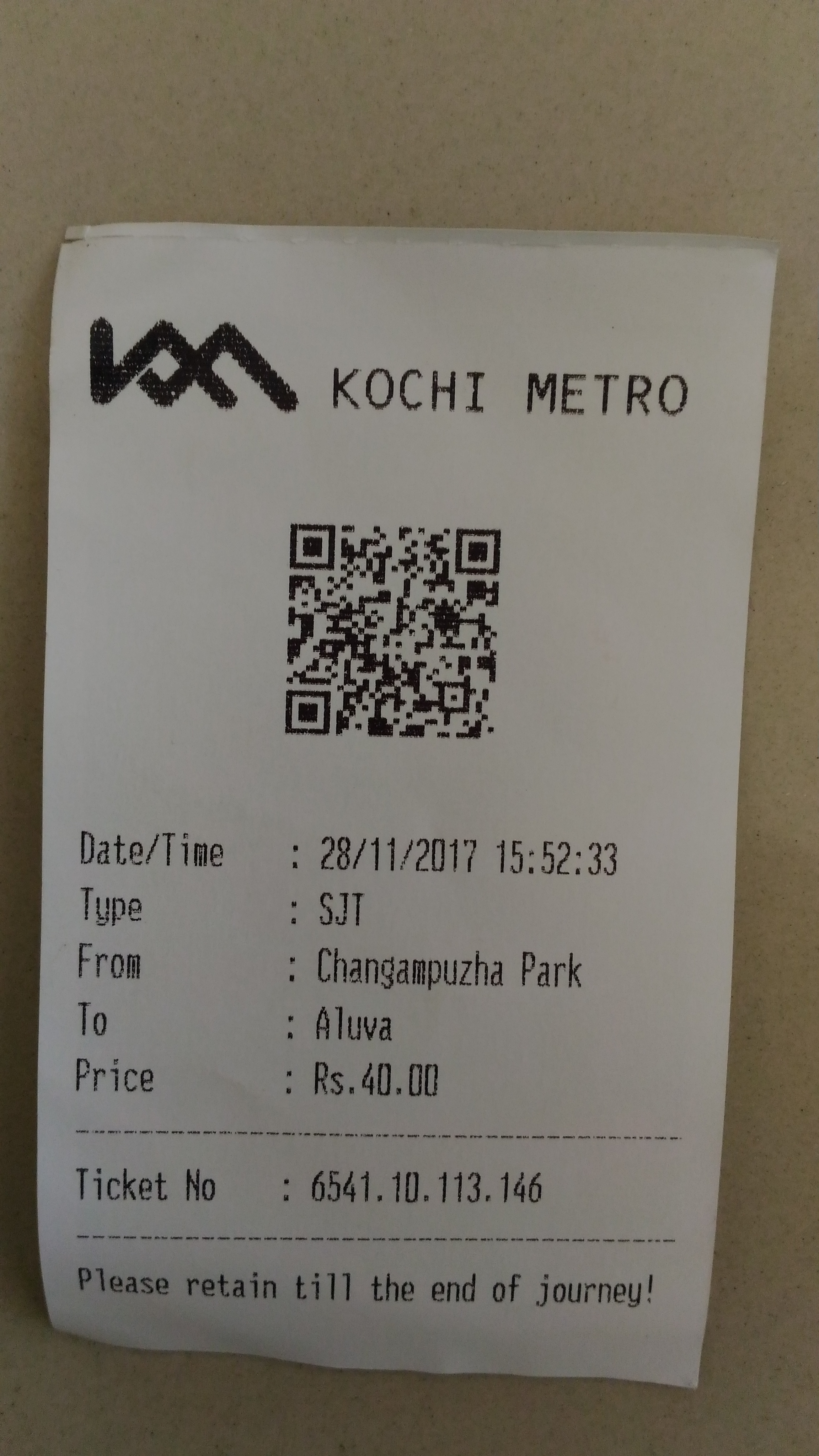 kochin metro entrance ticket